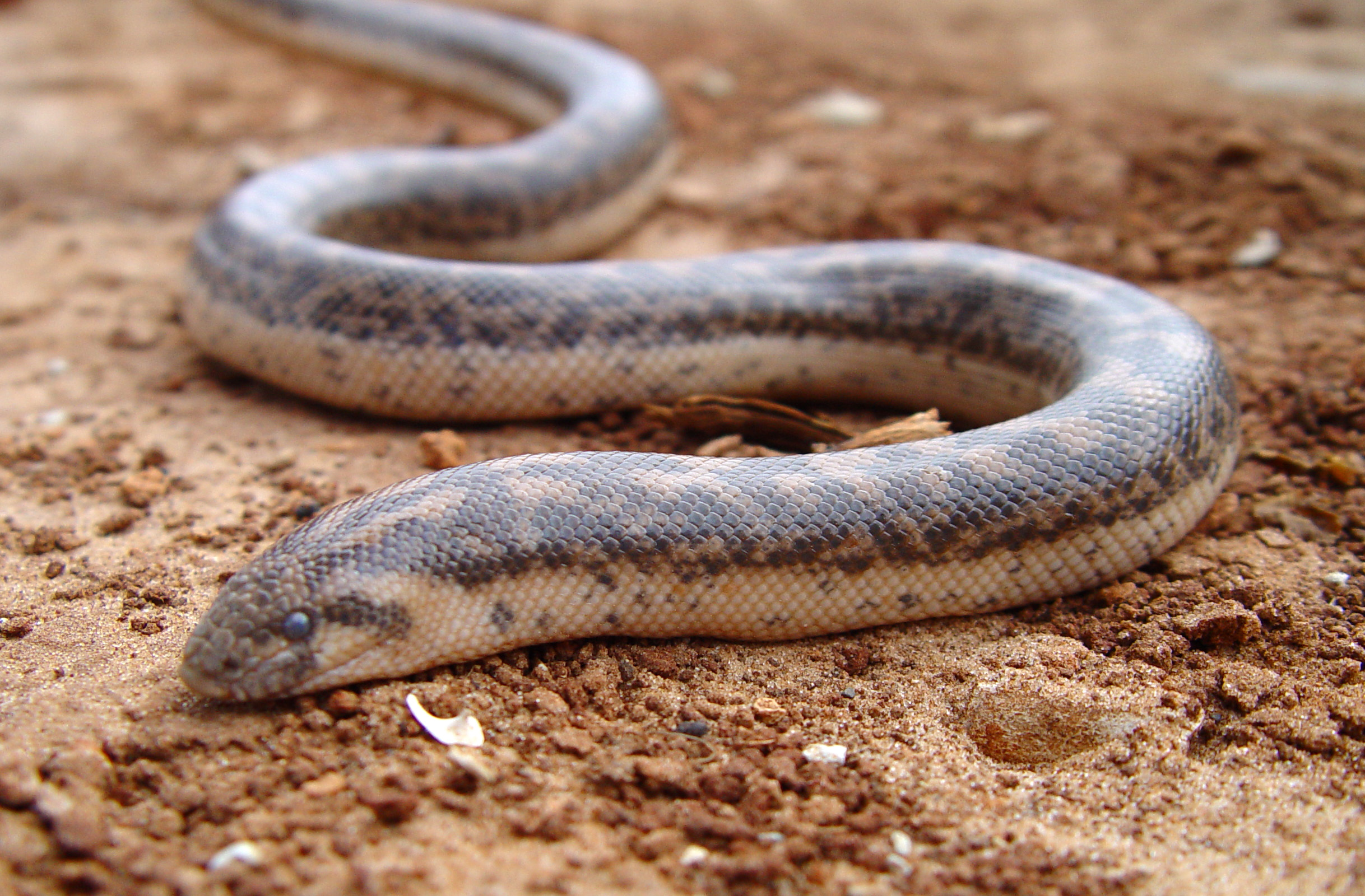 Eryx jaculus. Photo taken in Israel].